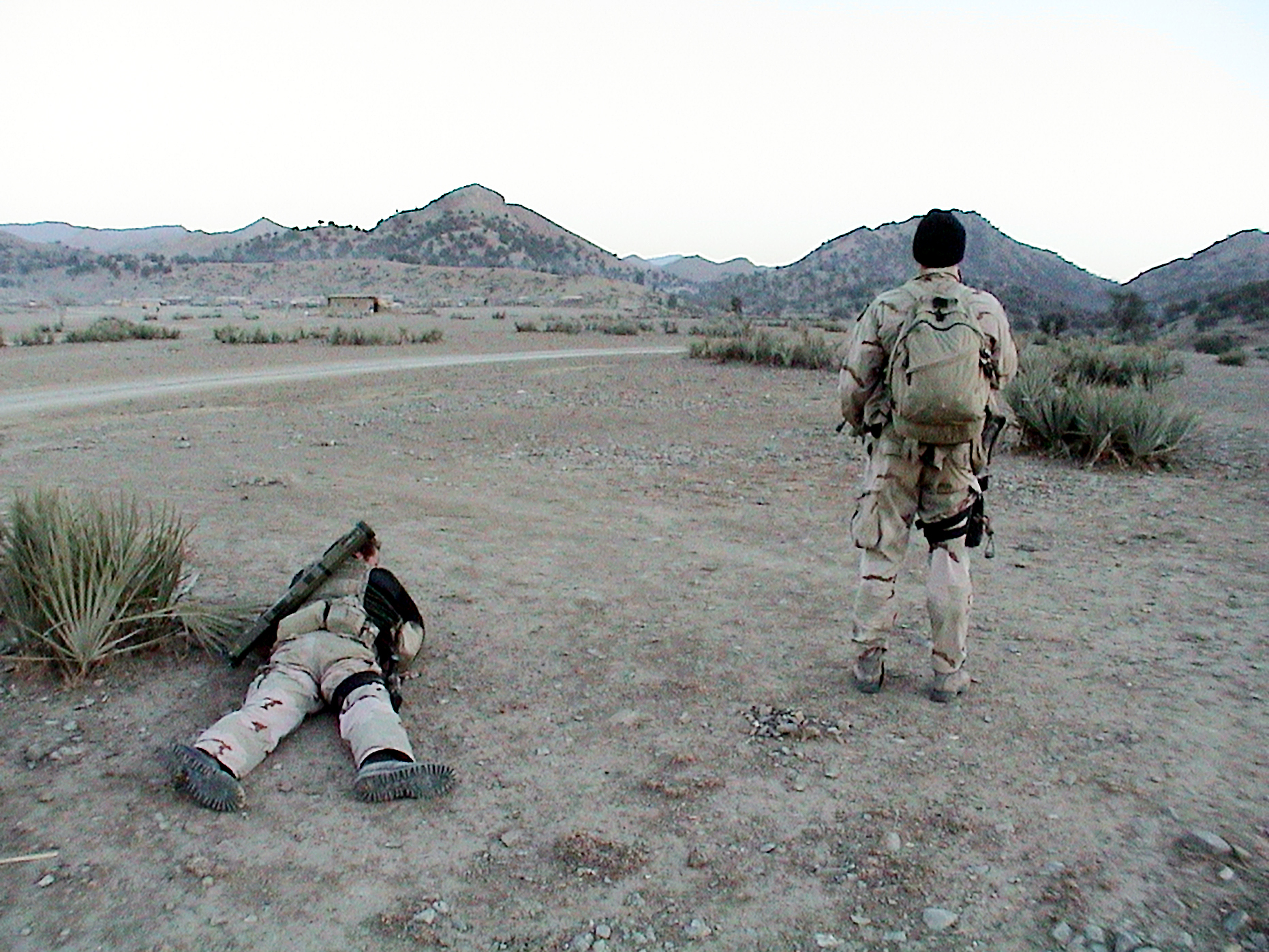 020124-N-6550T-003 Eastern Afghanistan (Jan. 26, 2002) -- U.S. Navy SEALs conduct special reconnaissance on a suspected location of al Qaida and Taliban forces. Navy special operations forces are conducting missions in Afghanistan in support of Operation Enduring Freedom. U.S. Navy photo by Photographer's Mate 1st Class Tim Turner. (RELEASED)